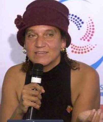 Photo of Frances-Anne Solomon taken at Media Conference for CaribbeanTales July 2012